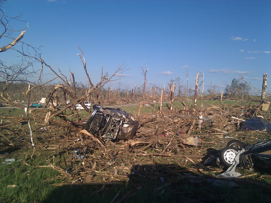 Damage from an EF-5 tornado which struck the town of Phil Campbell, Alabama during the April 27, 2011 tornado outbreak.